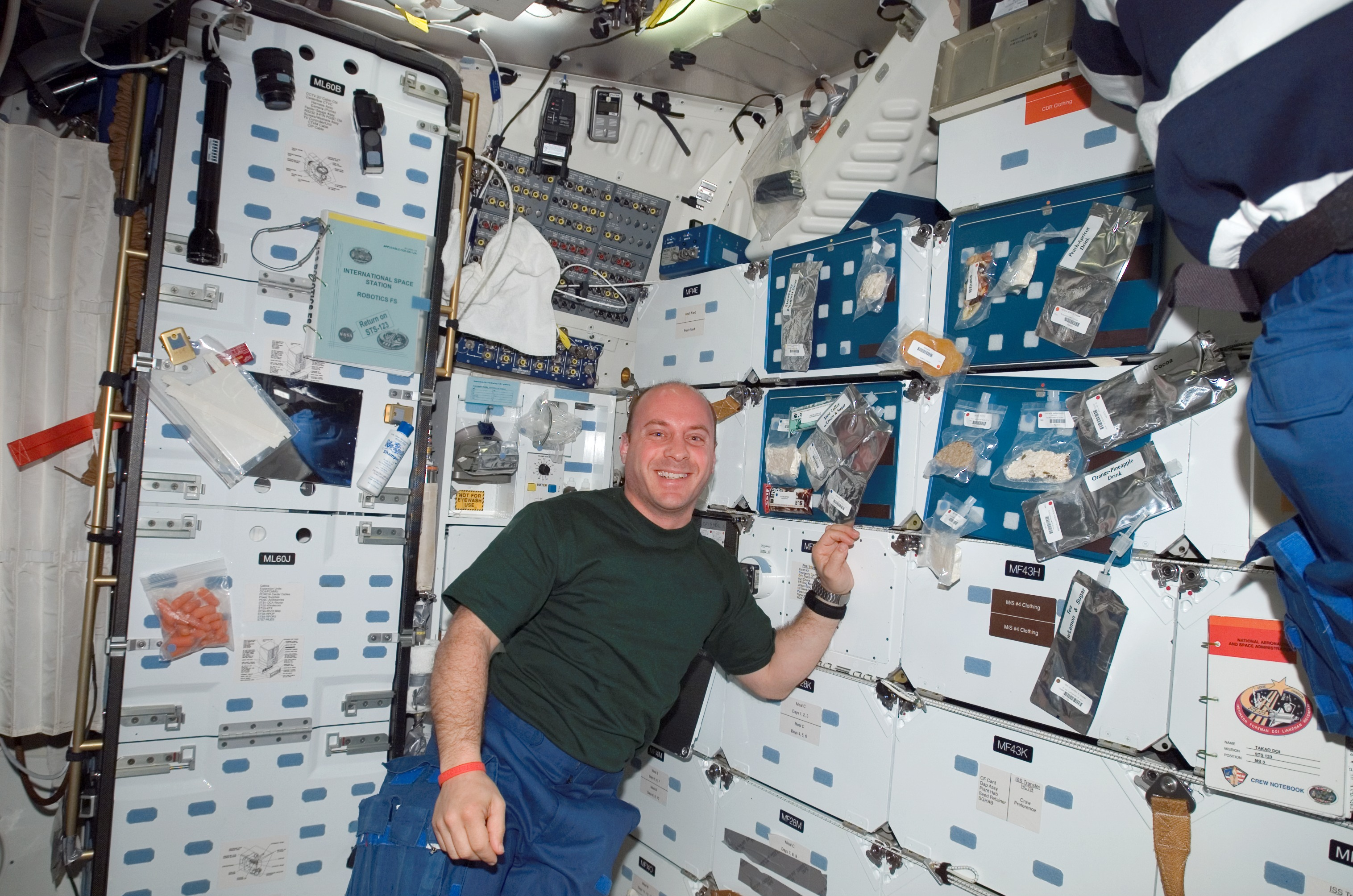 NASA Astronaut Garrett Reisman on the mid-deck of Space Shuttle Endeavour while docked with the International Space Station during the STS-123 mission. From NASA photo S123-E-006370 in public domain.